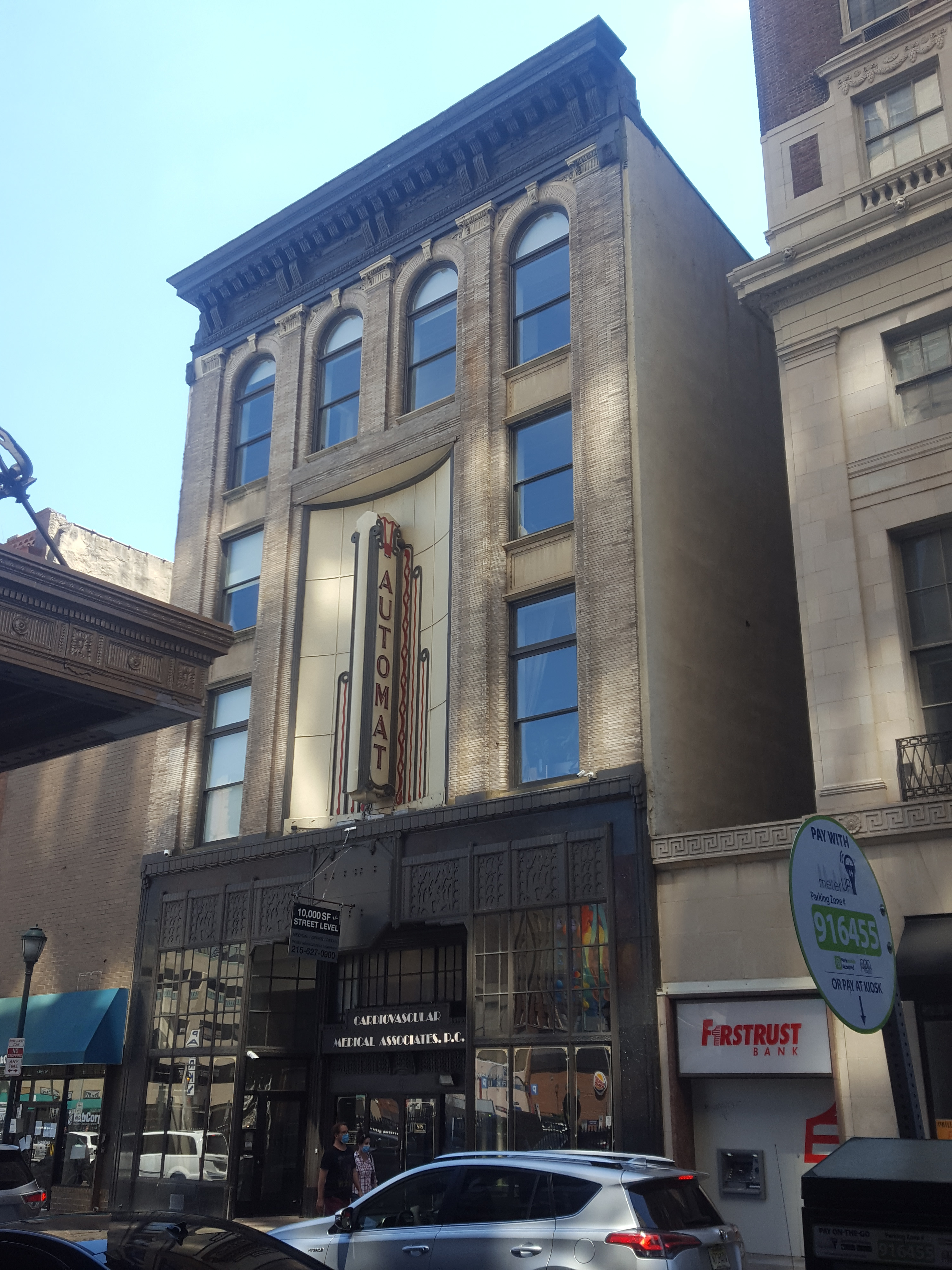 0818-0820 Chestnut St, Philadelphia, PA 19107 on July 29, 2020 featuring original Horn & Hardart Automat sign. Photograph by Morris Levin.